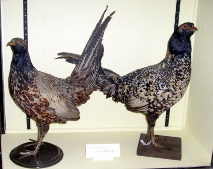 Own work. Two hybrids between chickens and the common pheasant, Rothschild Museum, Tring. Photo taken of specimens ant Rothschild Zoological Museum, Tring, England.